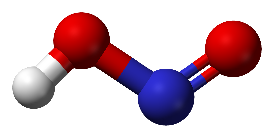 Ball-and-stick model of the trans isomer of the nitrous acid molecule, HONO or HNO2. Structure calculated in Spartan using the HF/3-21G basis set.